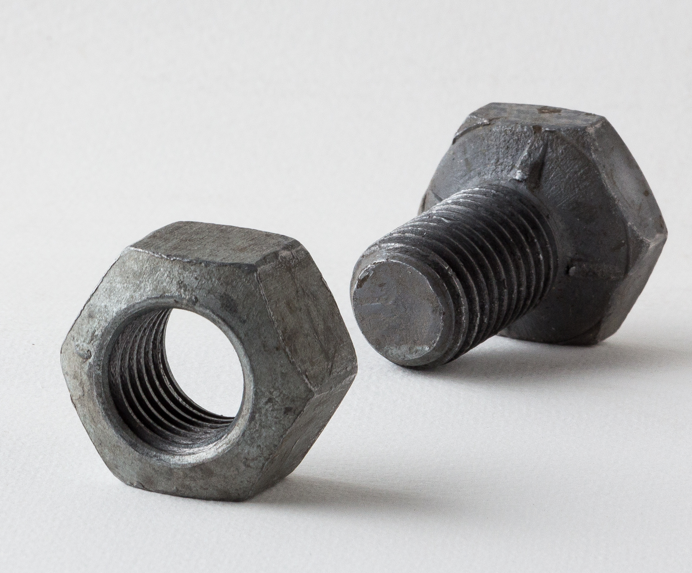 A nut and a bolt...